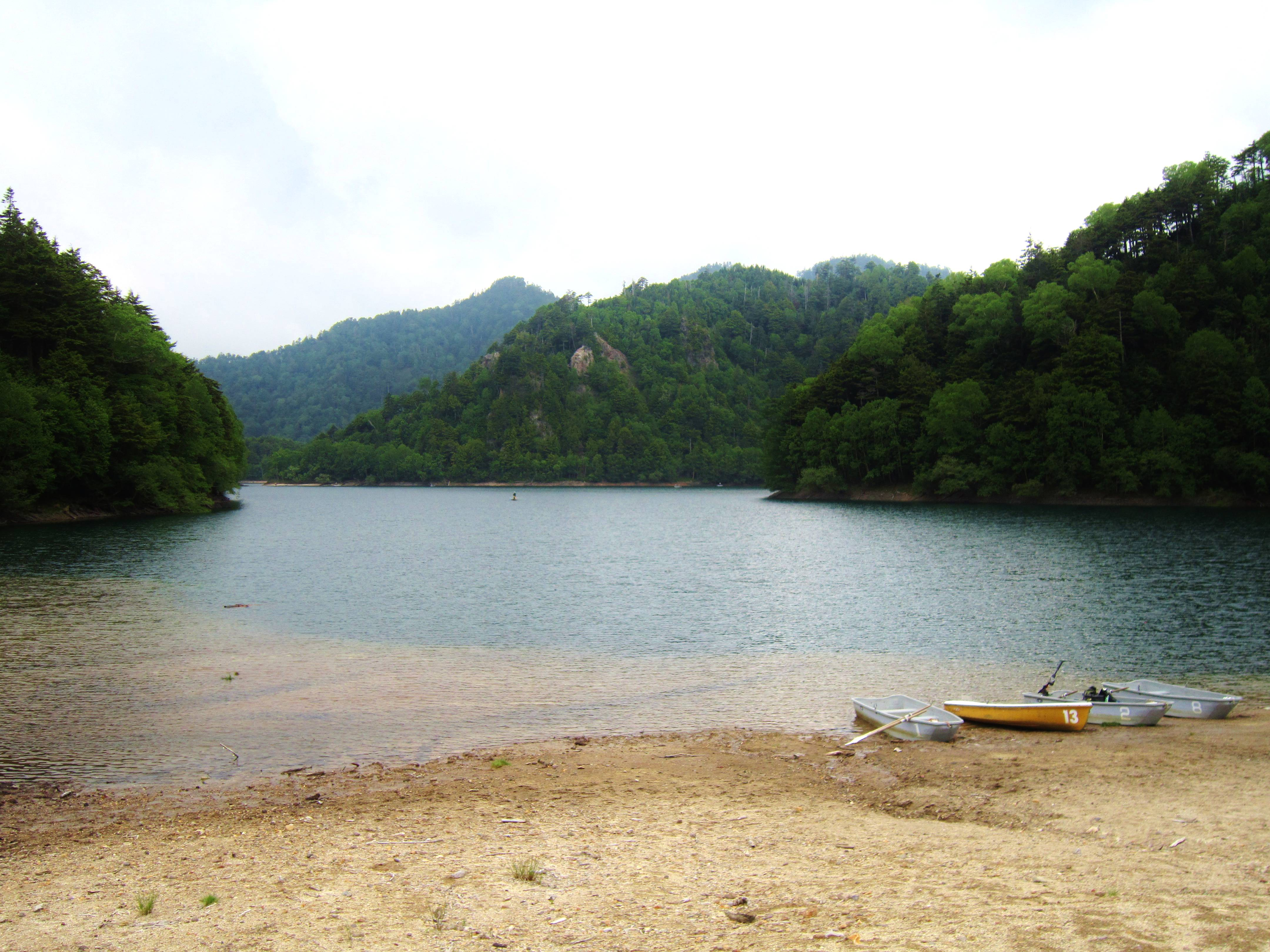 Sugenuma.